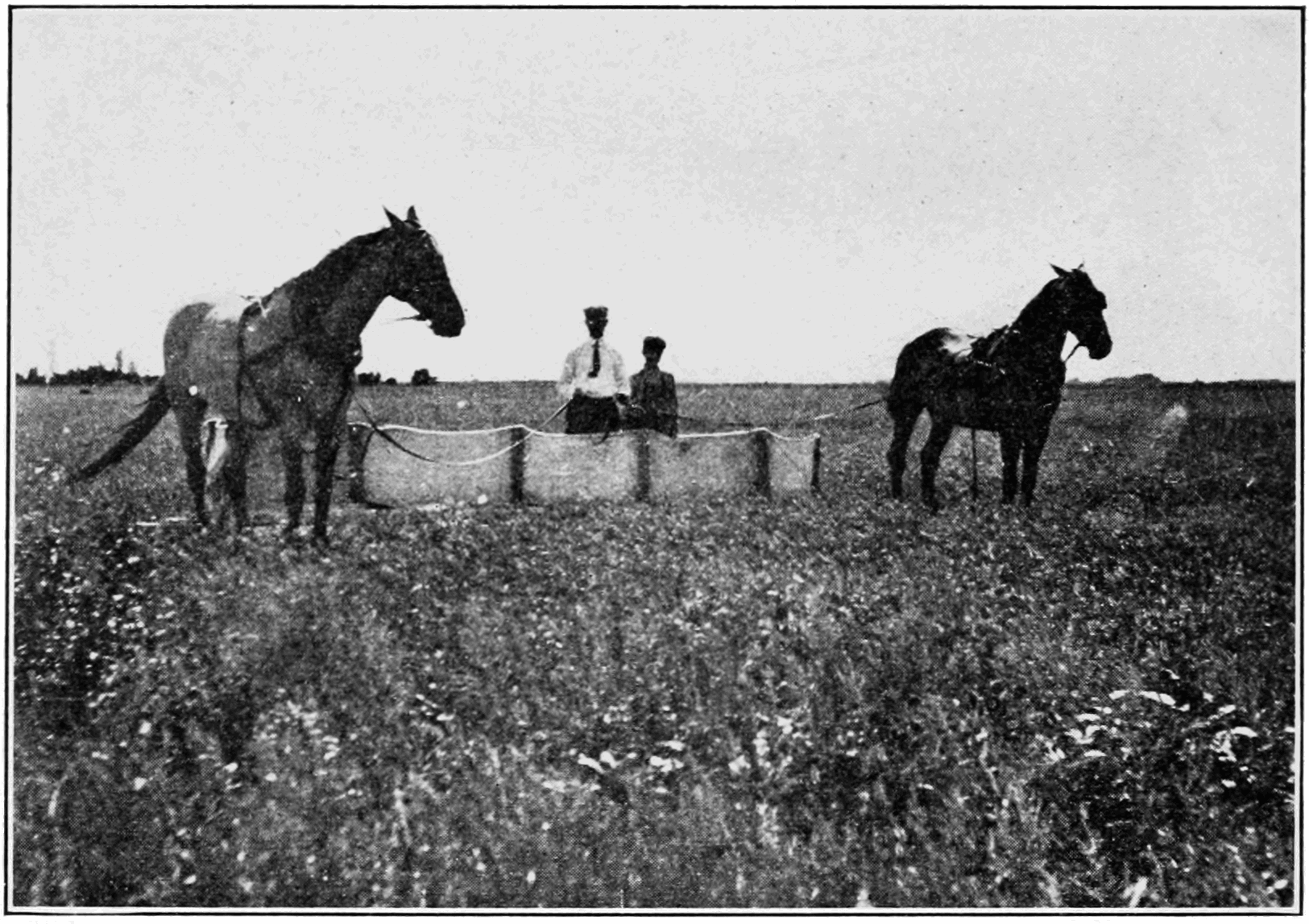 A hopper dozer in action